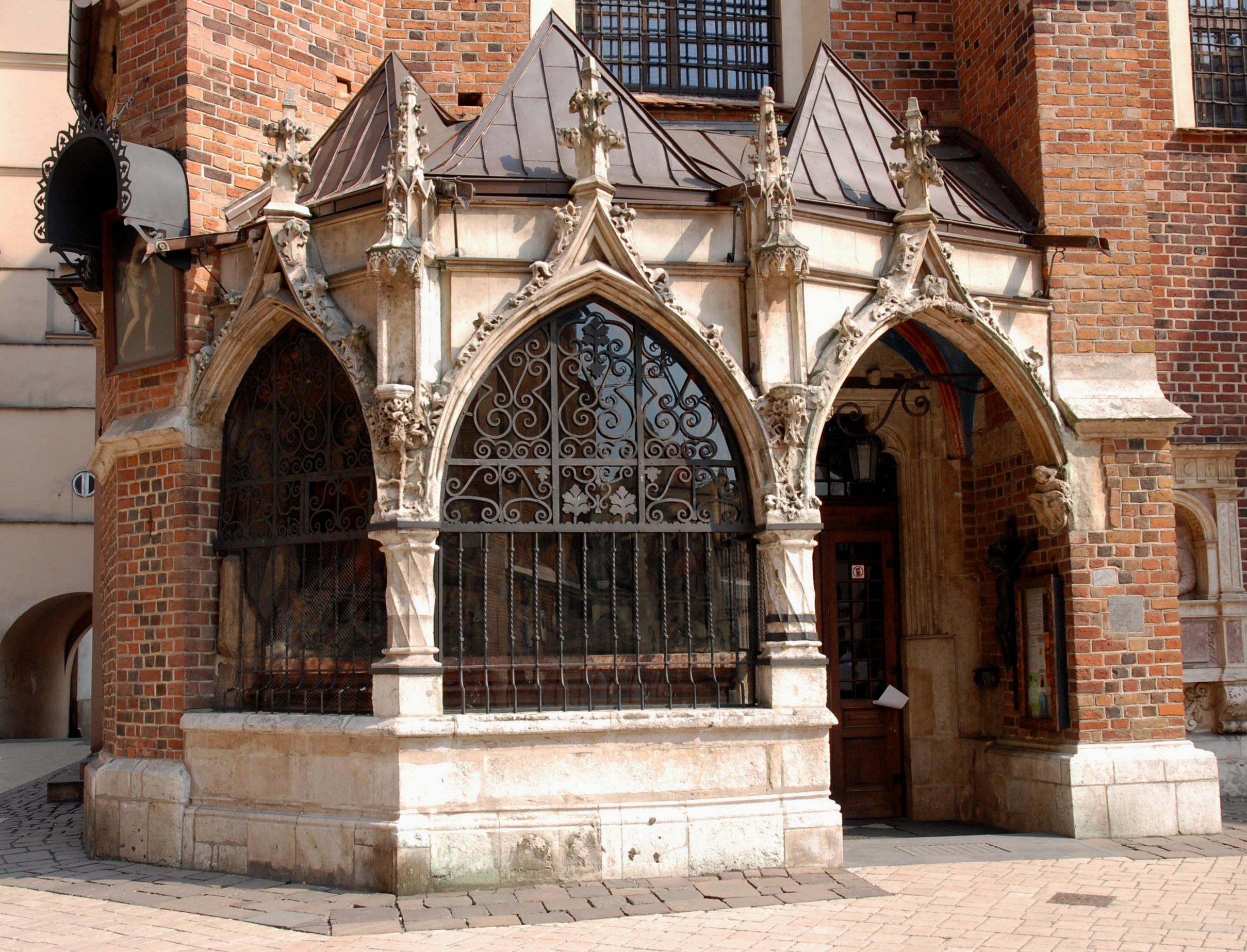 Church "Saint Barbara", Krakow, Poland